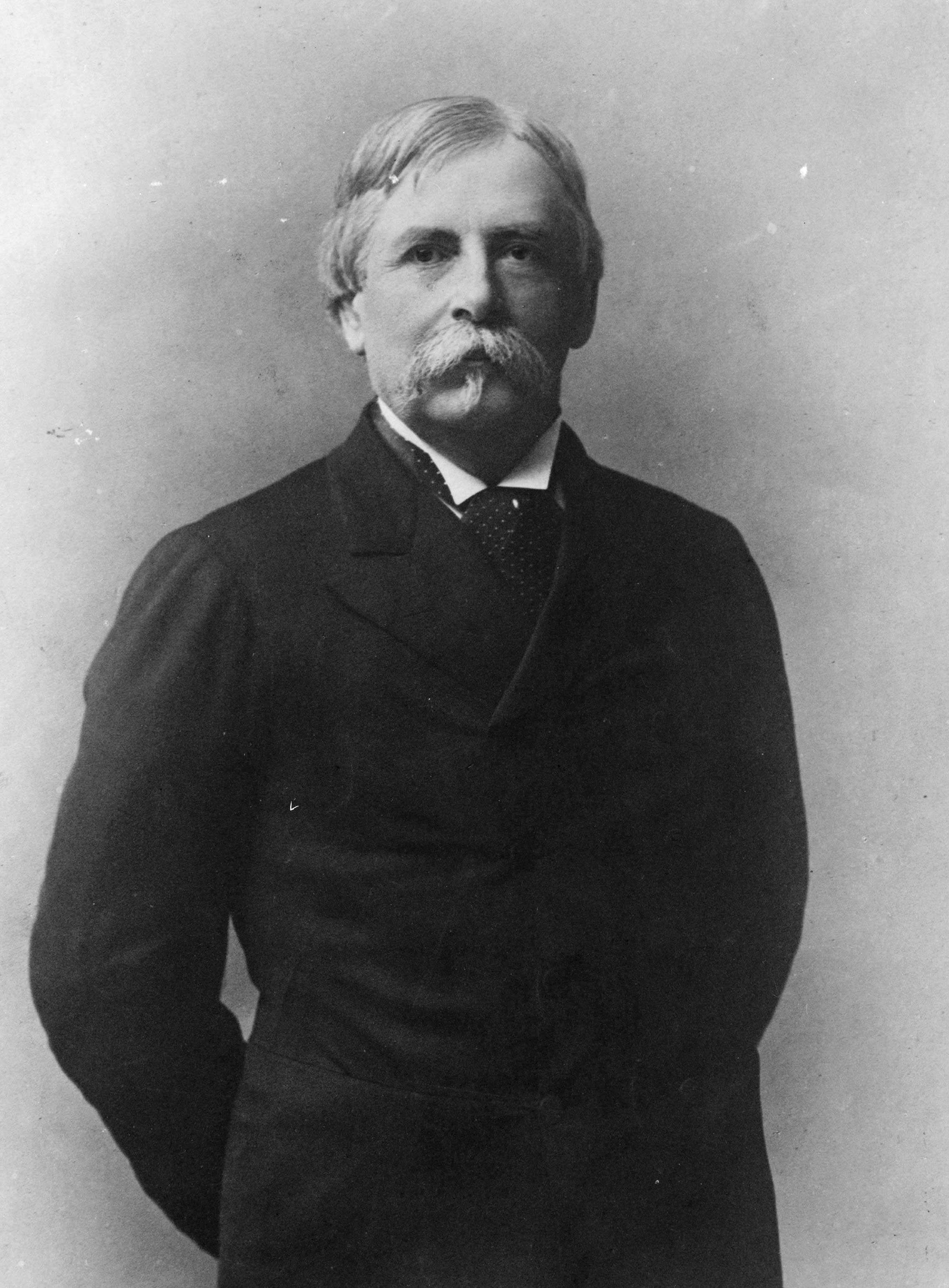 William Crowninshield Endicott (1826–1900), Secretary of War, three-quarter-length portrait, standing, facing front